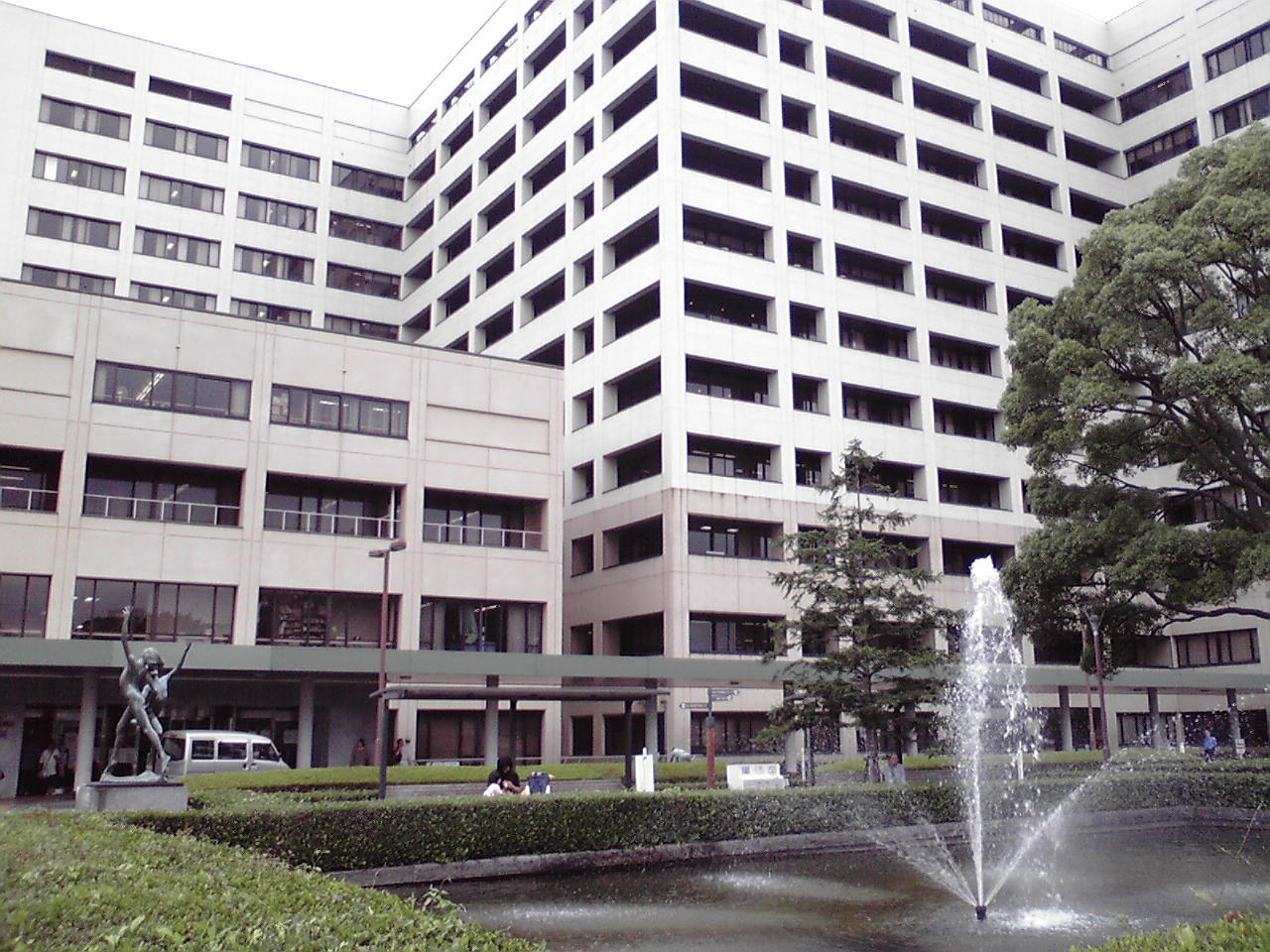 This is a hospital in Japan. It belongs to University of Tsukuba.